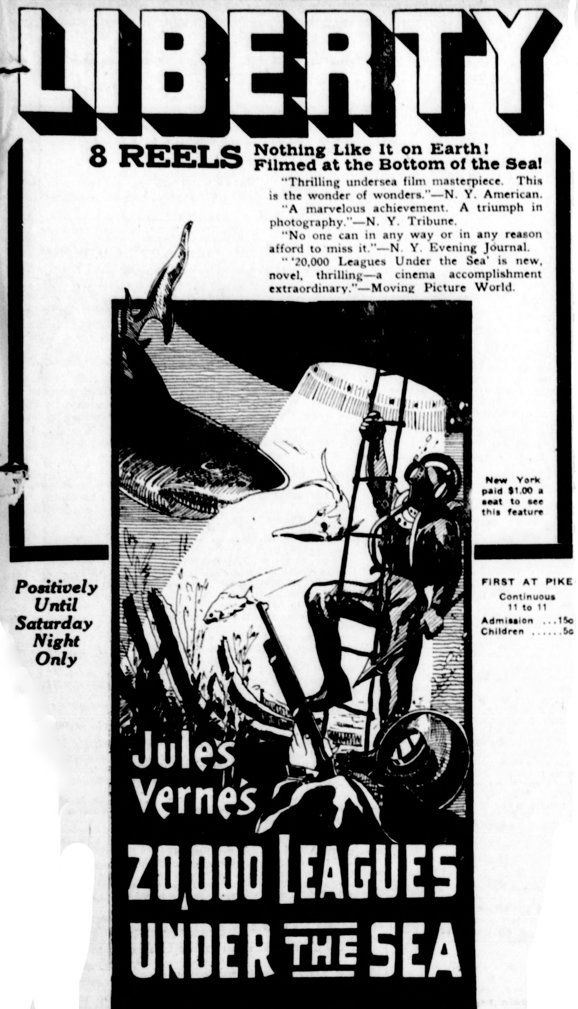 20,000 Leagues Under the Sea is a 1916 silent film directed by Stuart Paton. This is a newspaper advert for the film.